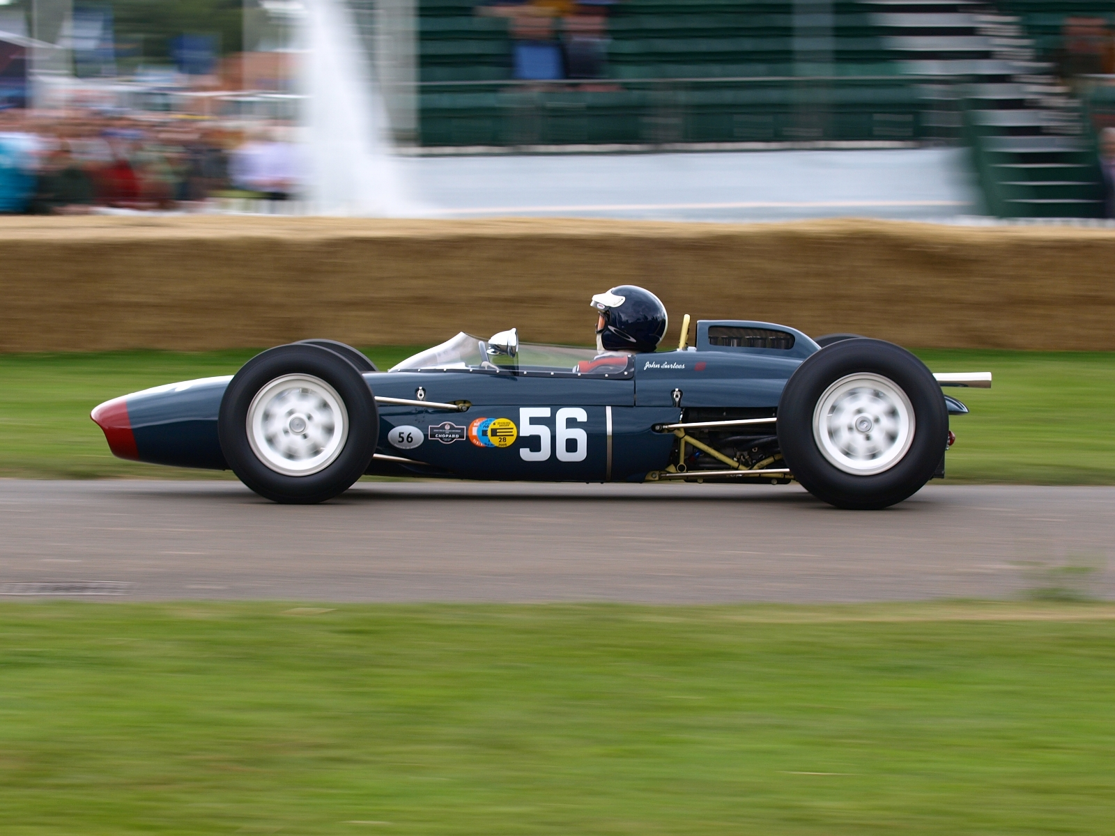 Lola Mk4 ex-John Surtees being demonstrated at the 2008 Goodwood Festival of Speed.